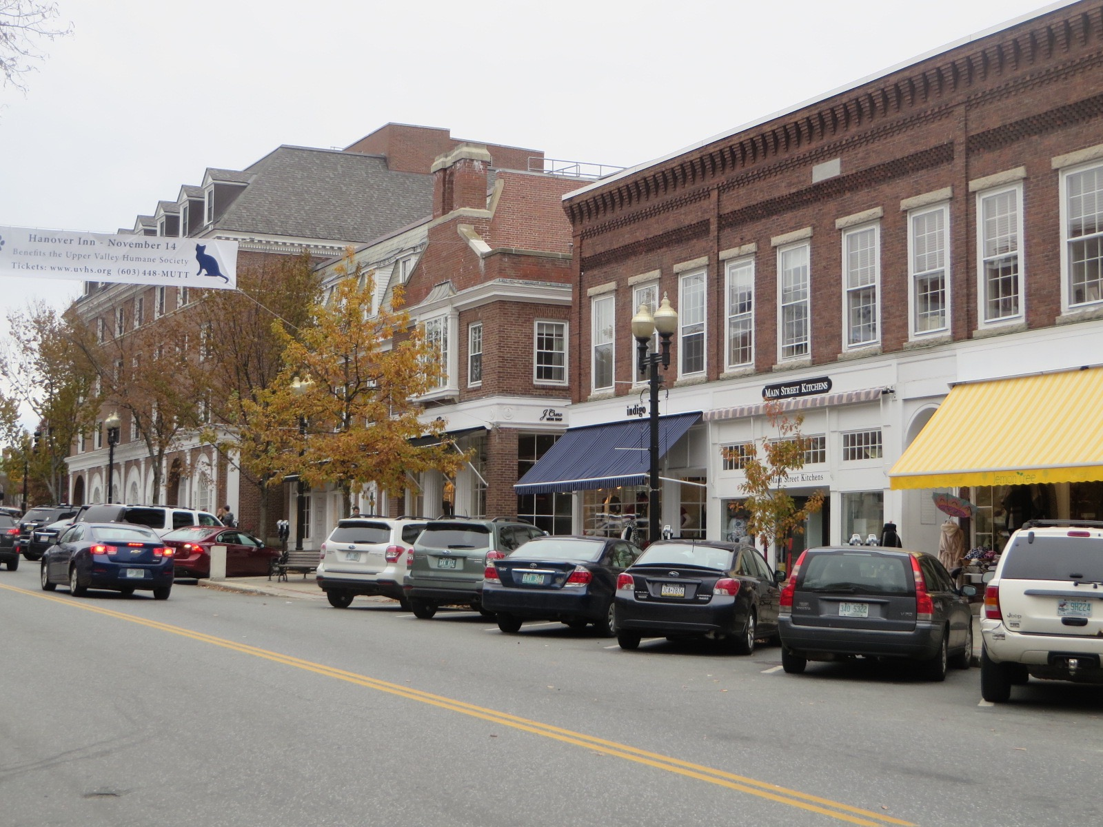 Main Street, Hanover, October 2015.